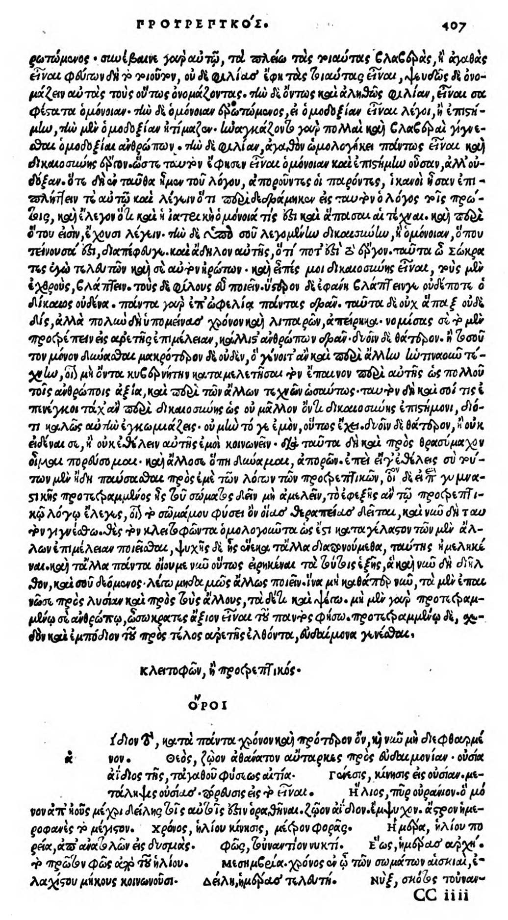 Ὅροι beginning. Editio princeps, Venice 1513.